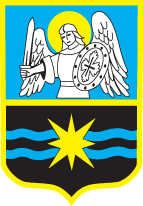 Coat of arms of Slavutych